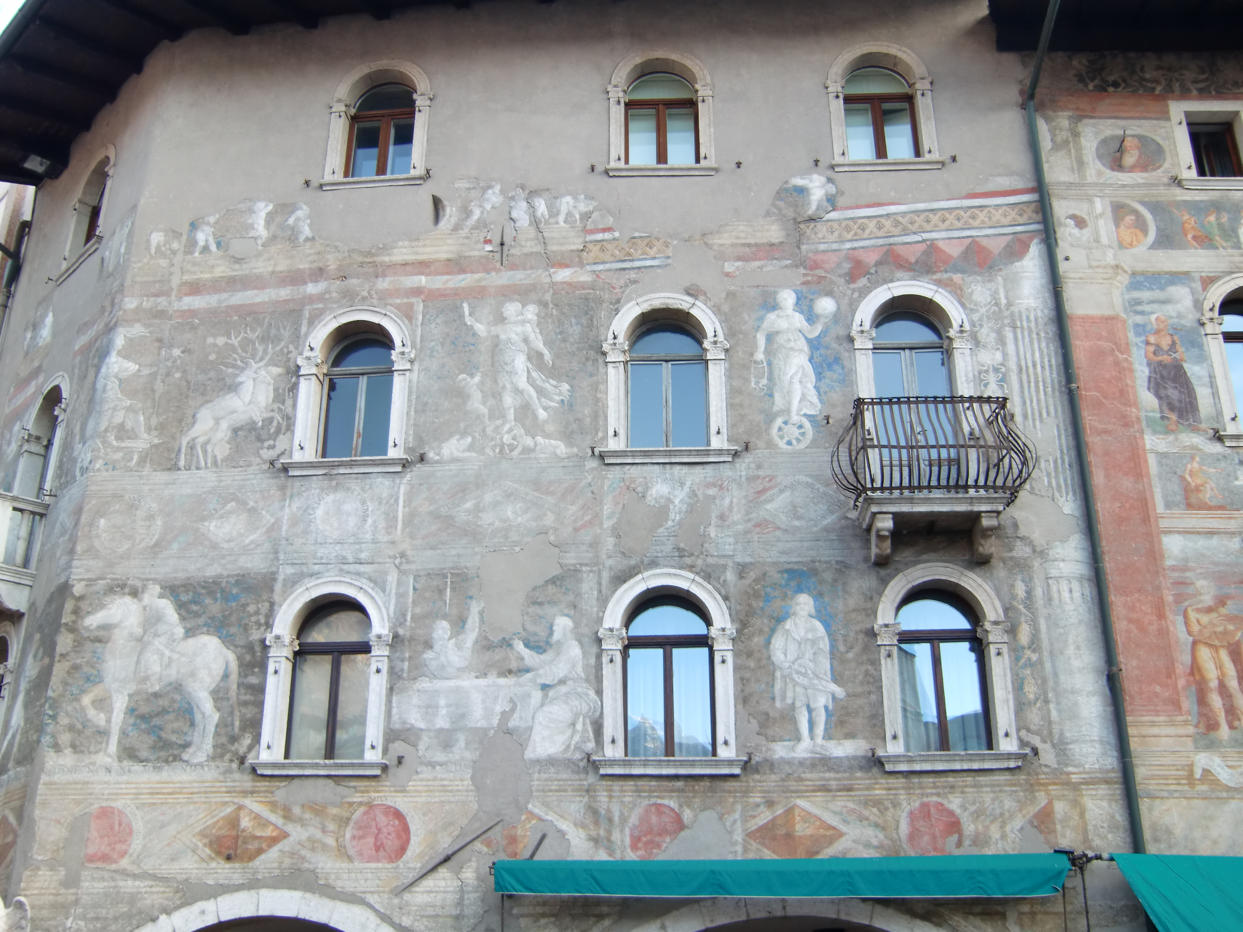 Frescoes of the Cazuffi-Rella houses, Trento